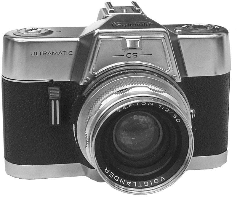 Voightländer Ultramatic CS, manufactured 1965–1968.